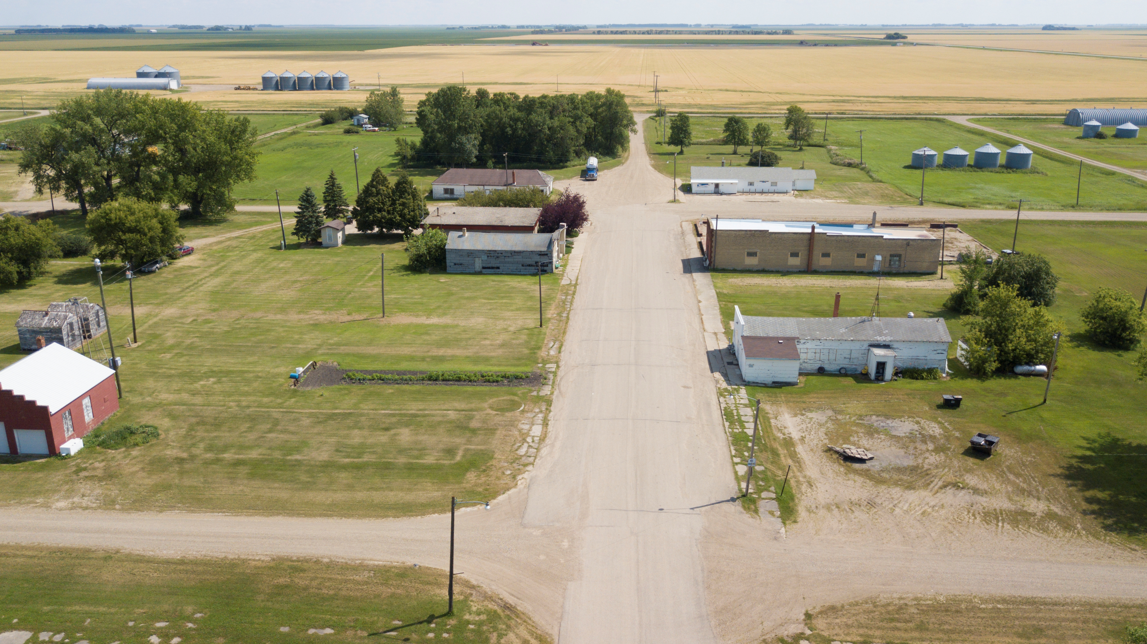 Hamilton, North Dakota - showing Wall Street (Main Street) taken with a DJI Mavic Pro drone by Neal Martin (originally from Hamilton, ND).